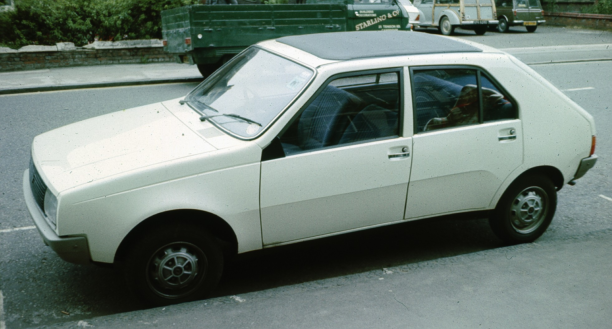 Early Renault 14. Note absence of wrap around indicator lamps on these early ones